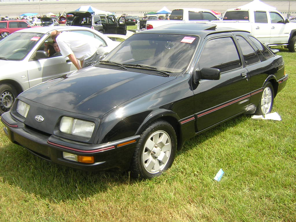 a Merkur XR4Ti at Nopi Nationals 2005